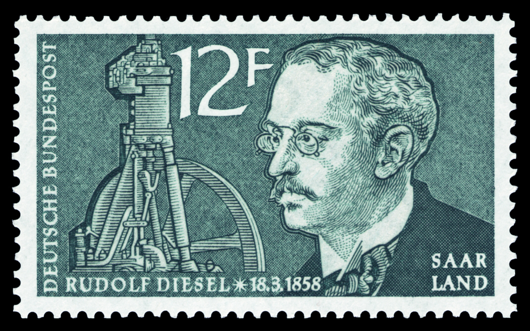 100th day of birth of Rudolf Diesel (1858-1913) Graphics by Schardt Ausgabepreis: 12 Saar-Franken First Day of Issue / Erstausgabetag: 18. März 1958 Michel-Katalog-Nr: 432 (Saarland)